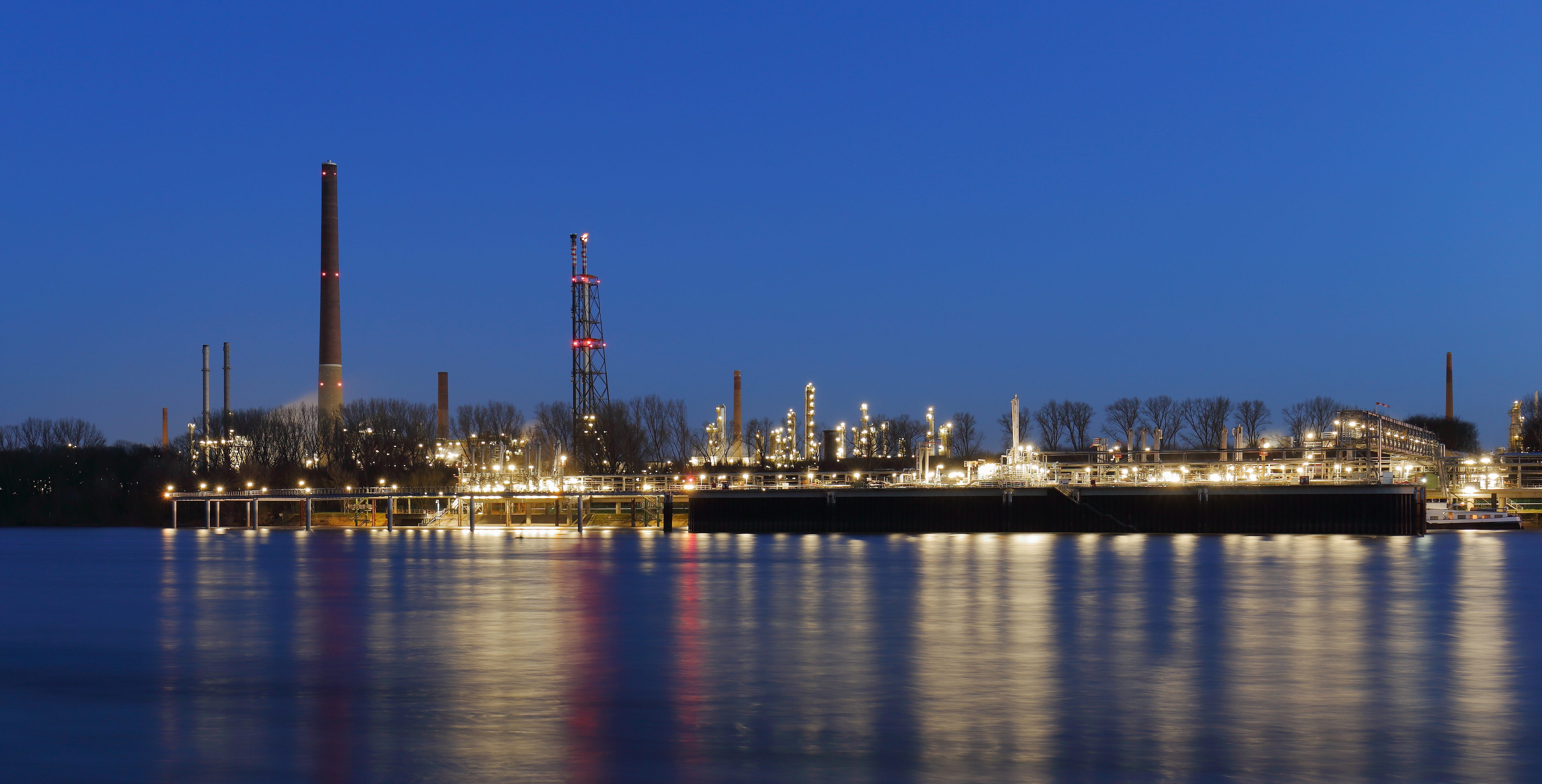 Rheinland Raffinerie Werk Süd, Wesseling, Germany, during blue hour.